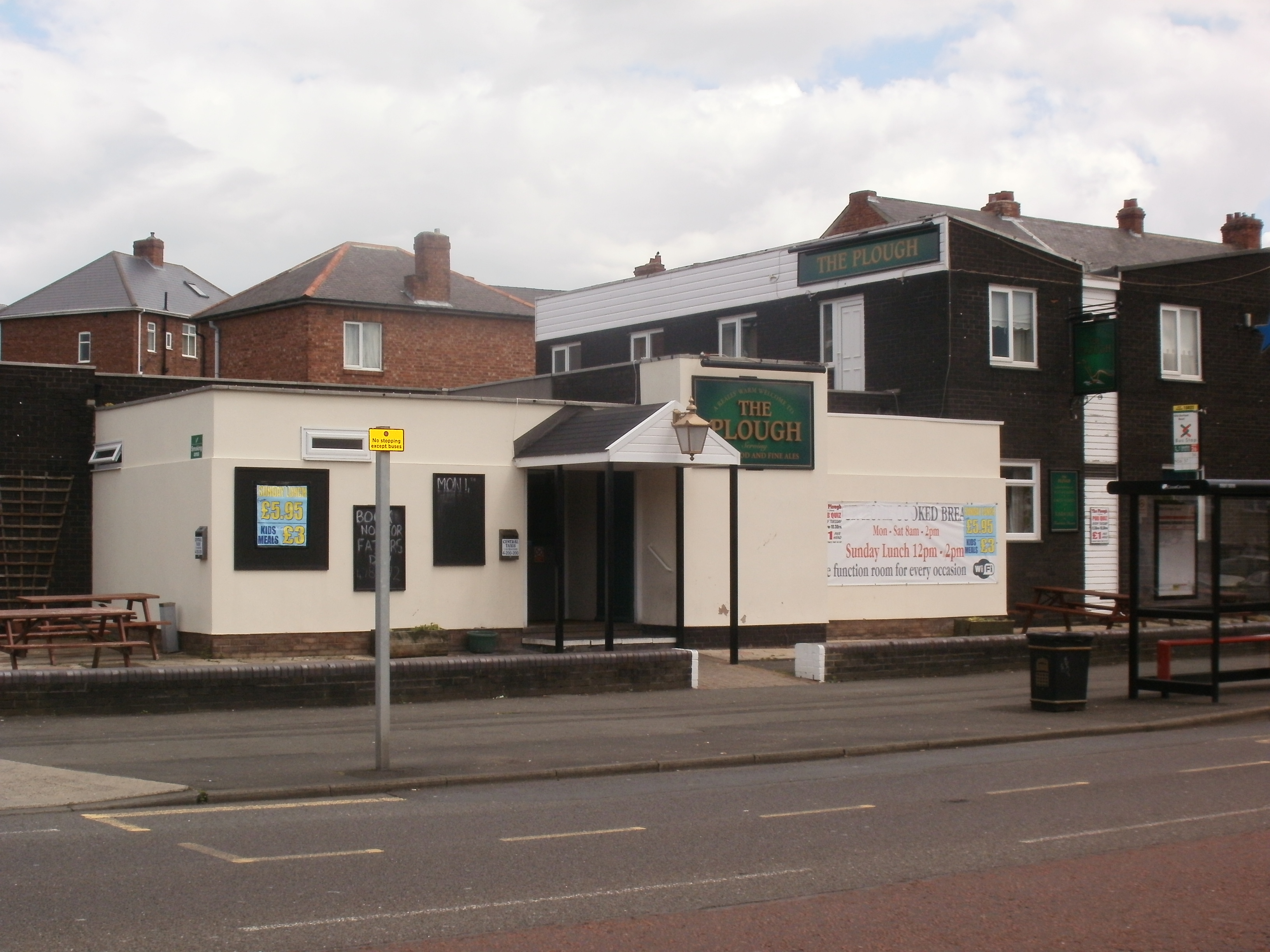 The Plough in on Old Durham Road, Deckham. Formerly 'Speed the Plough'.